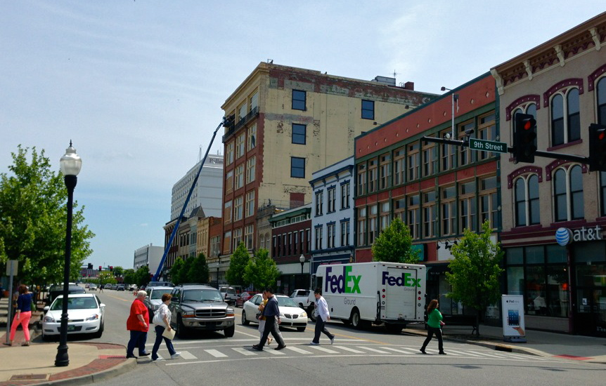 Historic Third Avenue across from Pullman Square in May of 2013, showing the renovation of the old Anderson Newcome/Stone & Thomas Building into the new Marshall University Visual Arts Center.